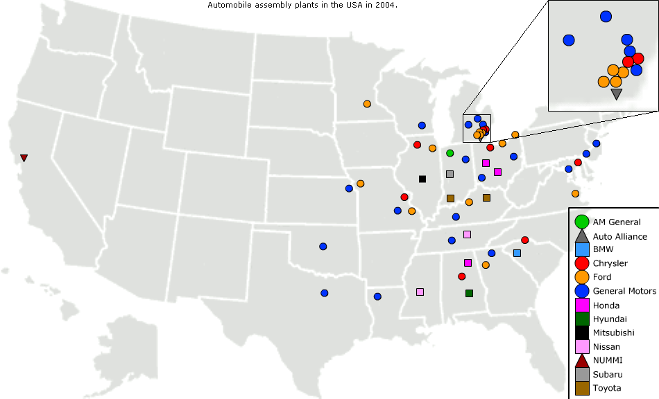 Automobile assembly plants in the USA in 2004. Circle: American owned Square: Foreign owned Triangle: Joint-venture